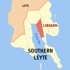 Map of Southern Leyte showing the location of Libagon